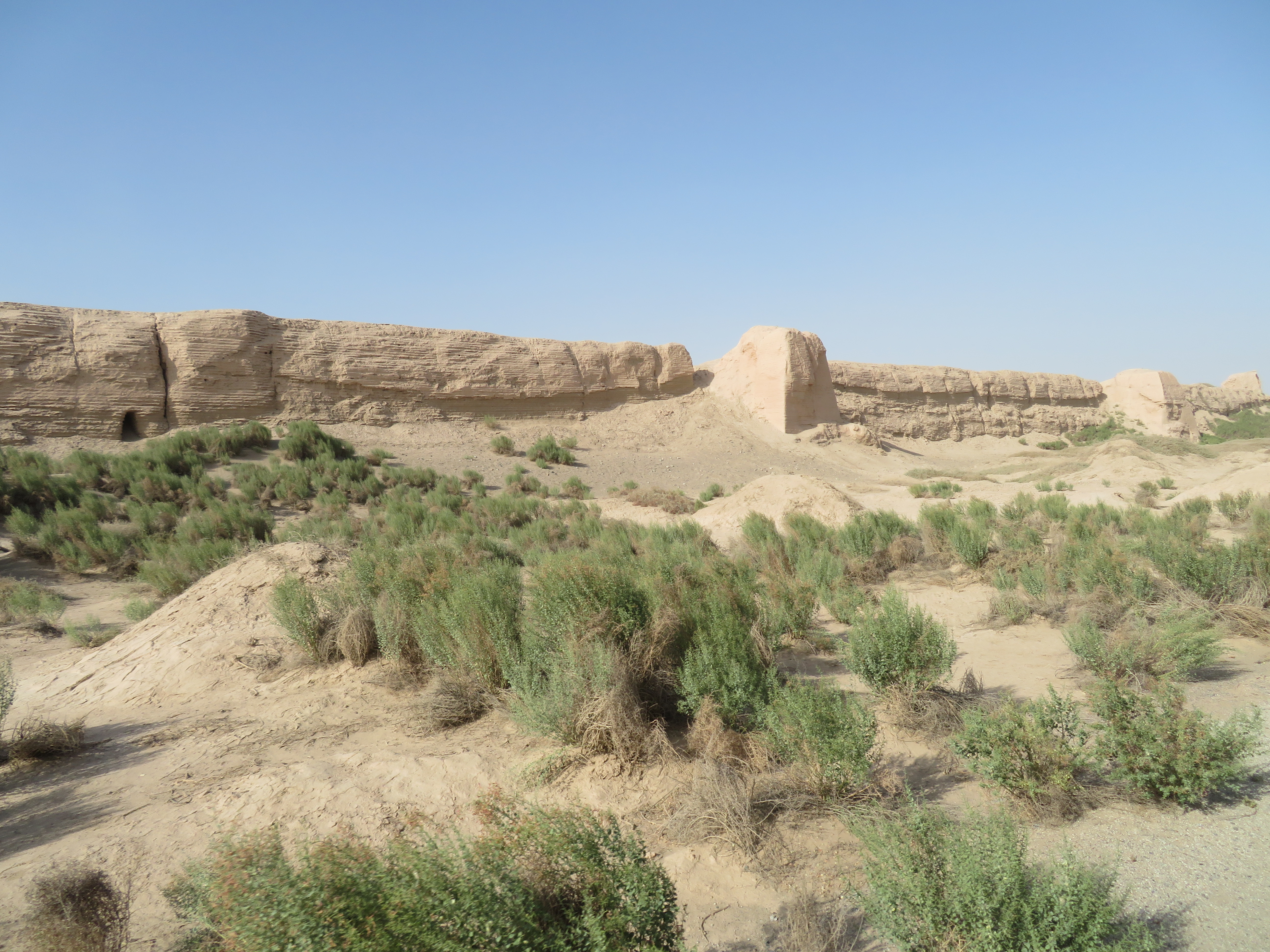 Suoyang City Ruins: outer wall - south section